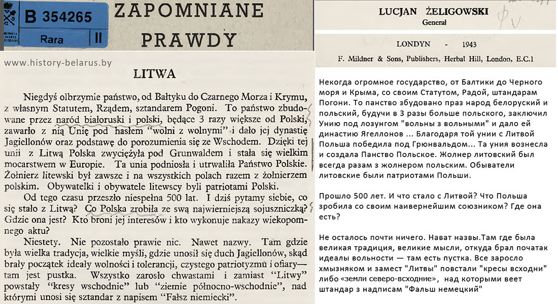 Memories of Lucian Zeligowski